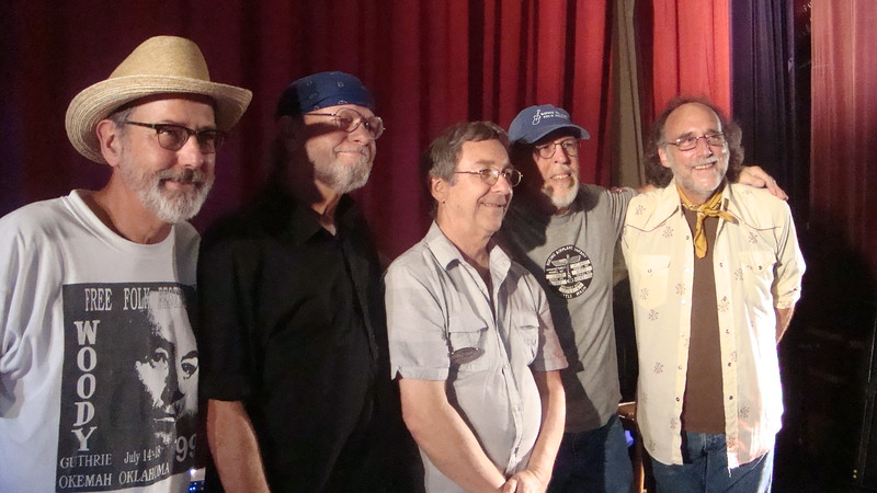 The five members of the WoodyFest House Band: T.Z. Wright, Dan Duggin, Terry Ware, Michael McCarty, and Don Morris.